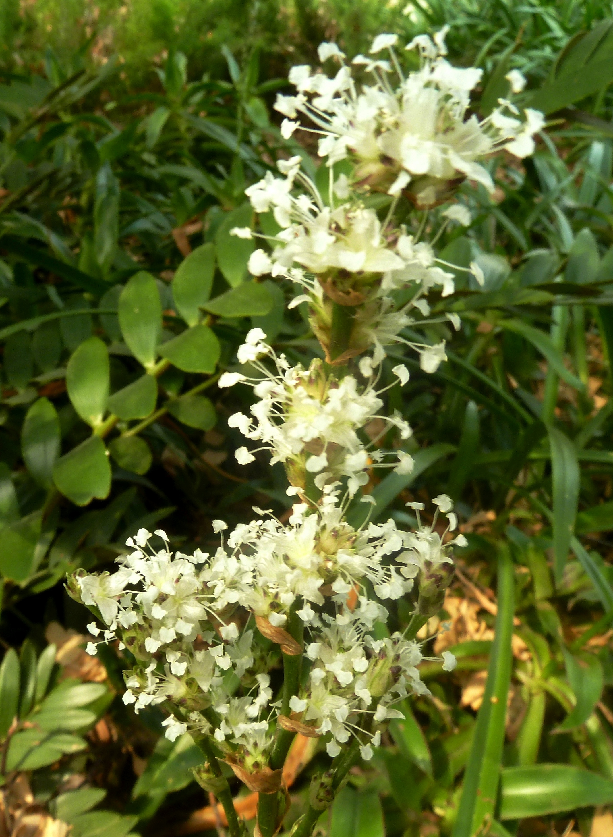 Inflorescence of a Basket plant in the Manie van der Schijff Botanical Garden in Pretoria